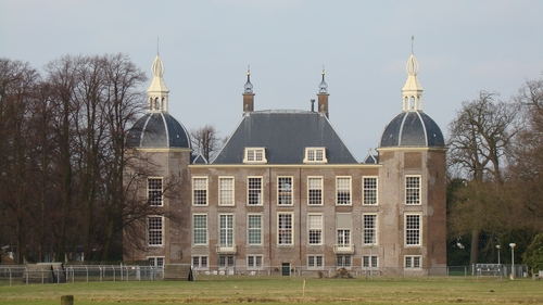 Castle Endegeest in Oegstgeest, The Netherlands